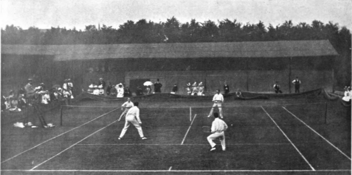 Brothers Doherty vs. Brothers Baddeley, Wimbledon doubles finals in 1897. Depicted Persons: Laurie Doherty (1875-1919) Reggie Doherty (1872-1910) Herbert Baddeley (1872-1921) Wilfred Baddeley (1872-1929)